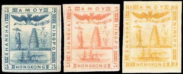 Amoy-Hong Kong-Shanghai-Ningpo bogus stamp, 3 difference colours, unused. China, Municipal Posts, Amoy